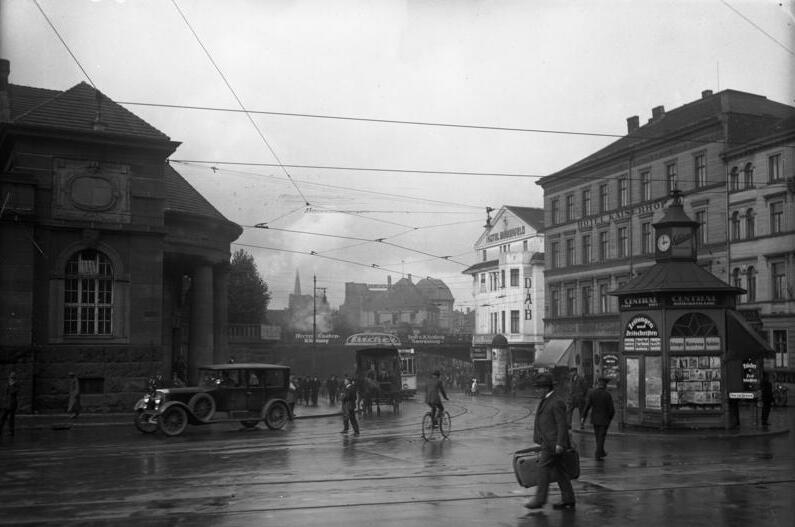 View on street Burgtor from street Burgwall in Dortmund.